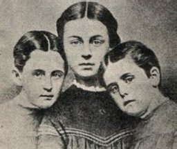 The nieces of Rebecca Sophia Clarke or "Sophie May" (1833-1906) Children's author. They were the inspiration for Prudy, Susy, and Dotty Dimple, from the Little Prudy series of children's books.